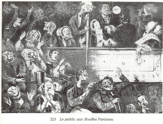 Caricature: The Audience at "Les Bouffes parisiens", Paris. Jacques Offenbach is shown at center near the top.